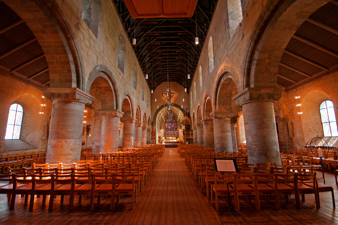 Norway's oldest cathedral